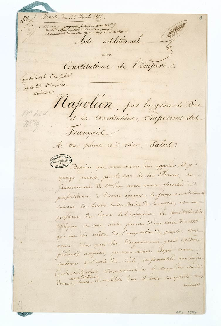 First page of the Additional Act to the Constitutions of the Empire (1815) with Napoleon's signature